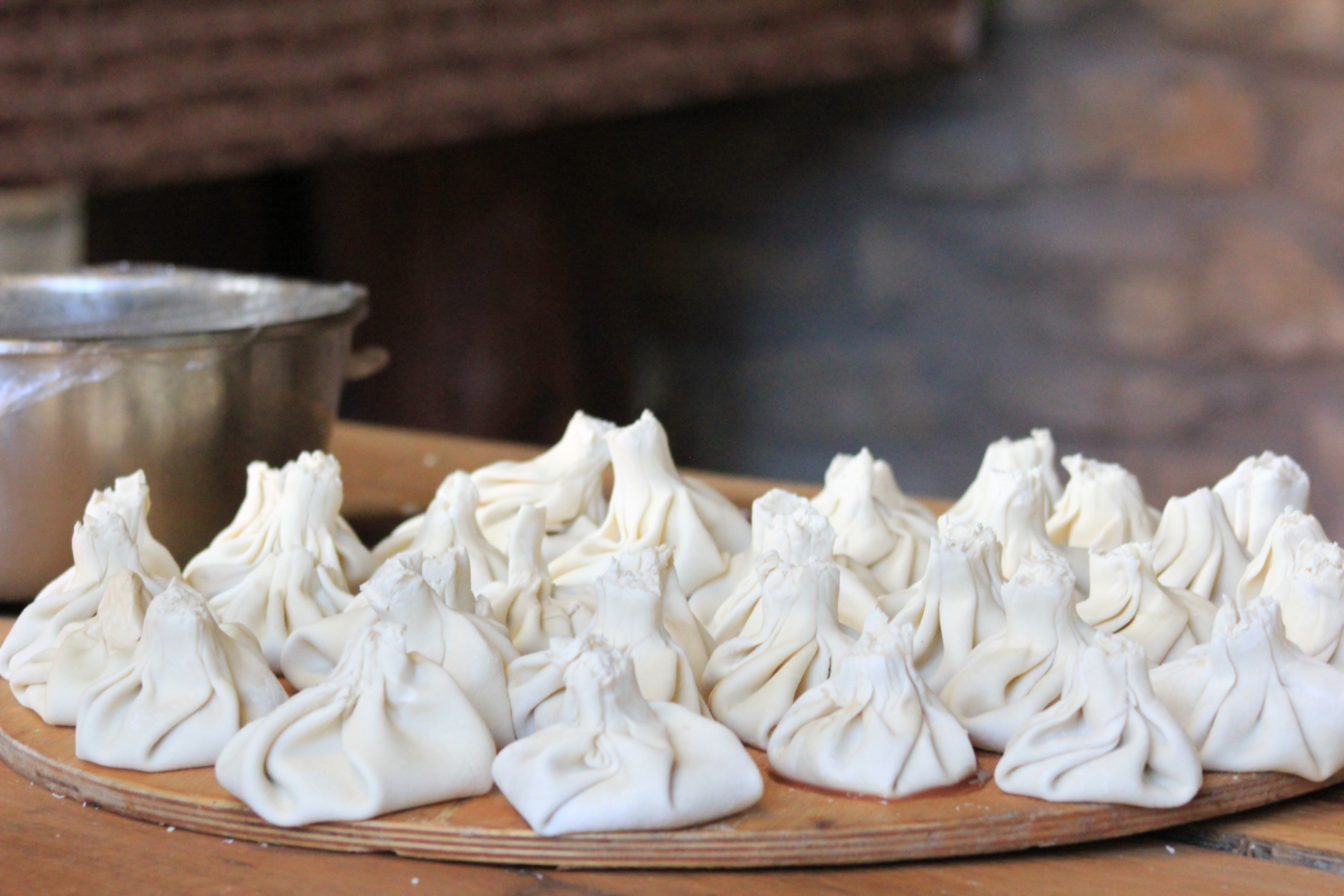 Приготовление хинкалей